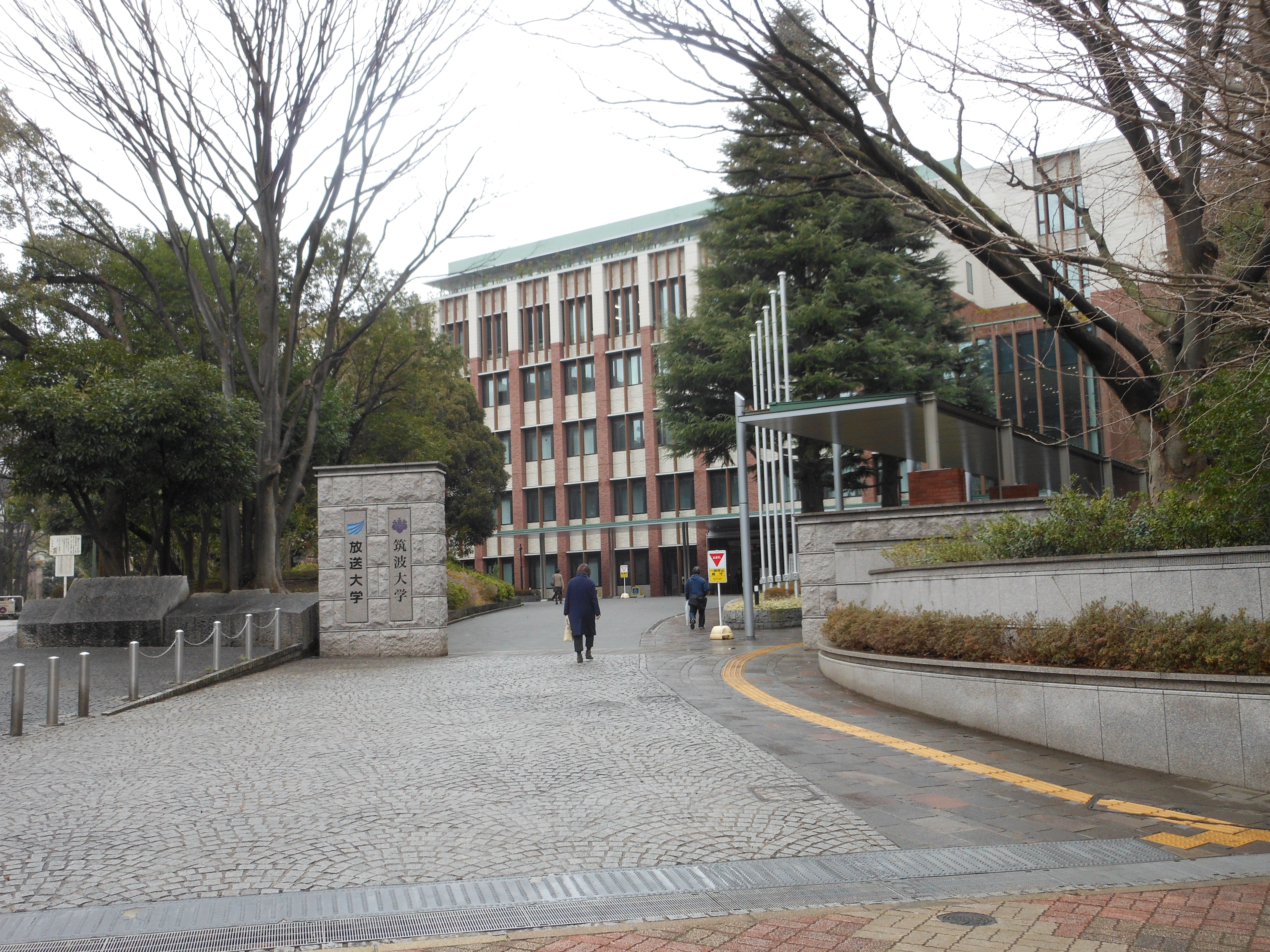 This is the Tokyo Bunkyo School Building, University of Tsukuba in Bunkyo, Tokyo. This building is also used for Tokyo-Bunkyo Learning Center, The Open University of Japan.